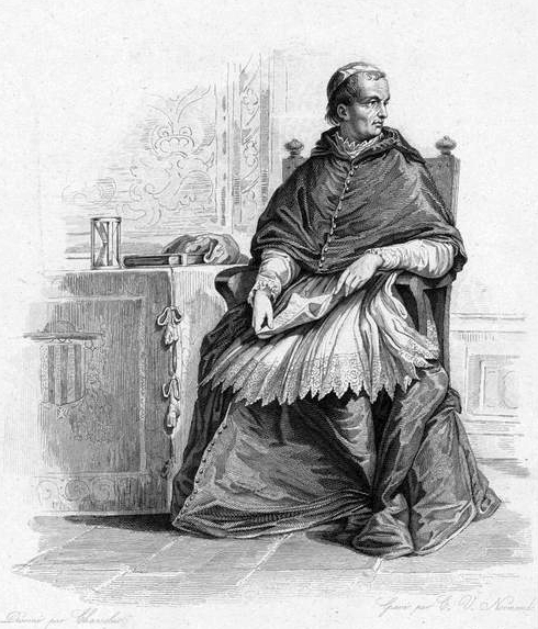 French cardinal Georges d'Amboise (1460-1510)